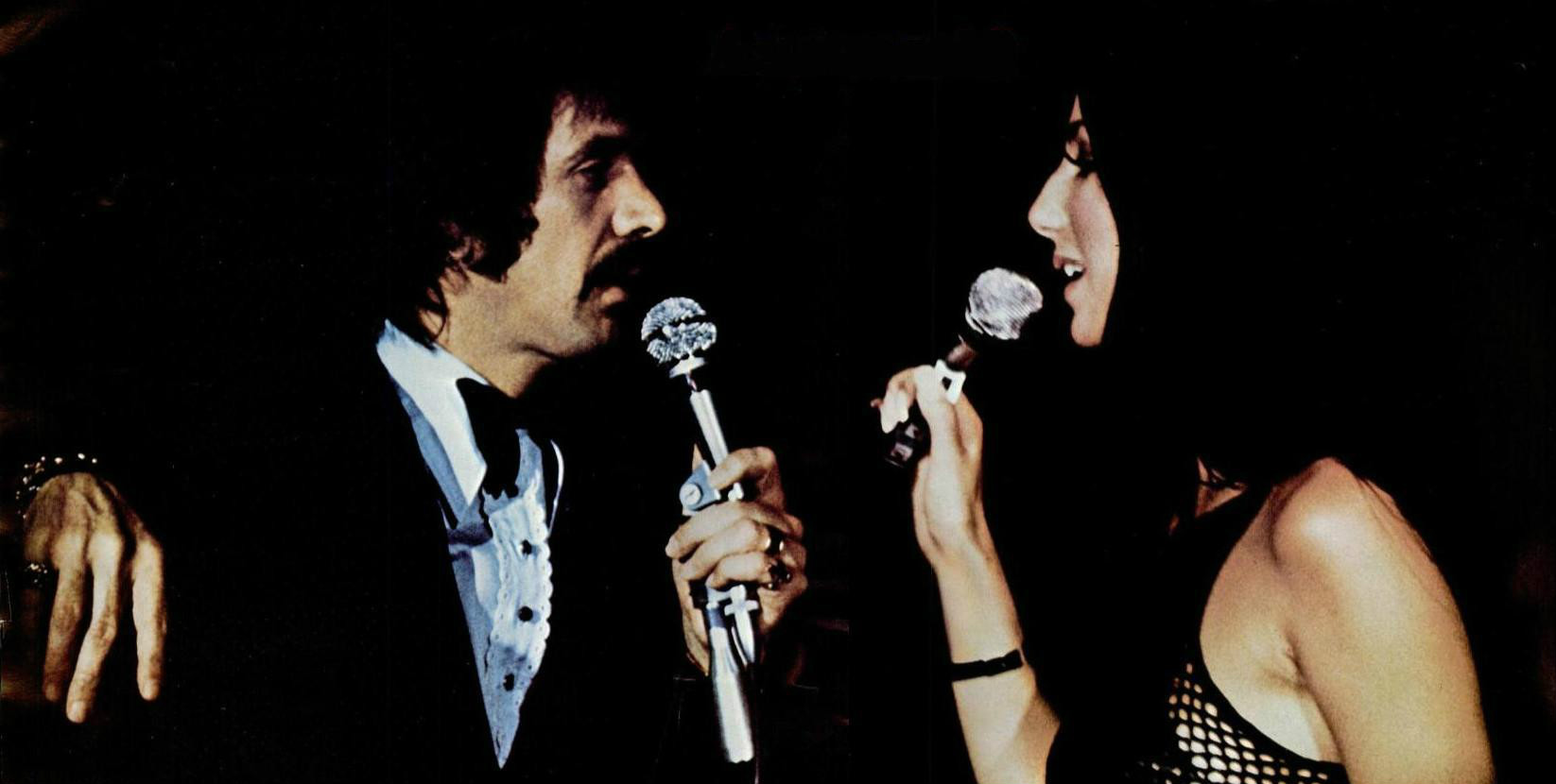 Photo of Sonny and Cher performing live in 1971 from a Kapp Records ad promoting their live album. The photo has been cropped and the copy in the photo was edited.